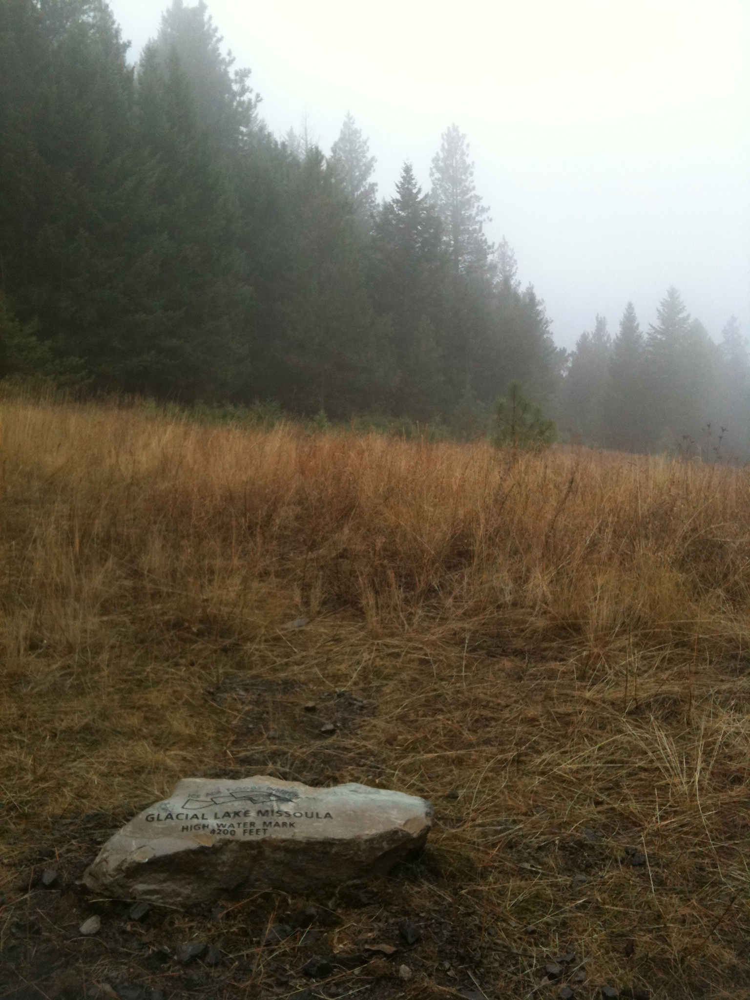 Rock on a ridge overlooking the Rattlesnake Valley showing the high water mark for Glacial Lake Missoula, 4200 ft., by the Ice Age Floods Institute.